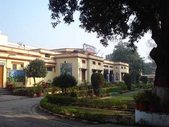 KV BHU building